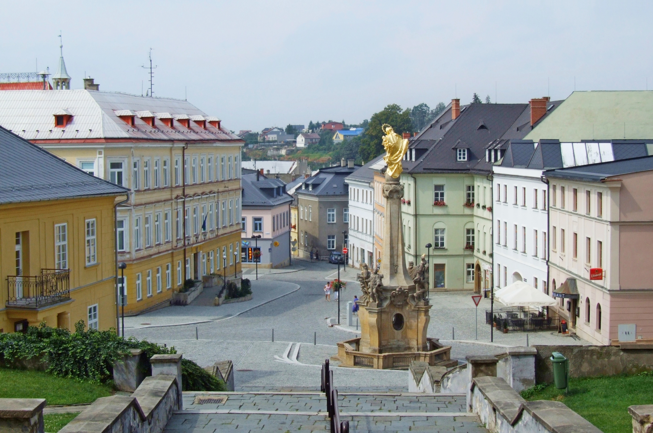 Town center of Šternberk (Sternberg), Moravia, Czech Republic